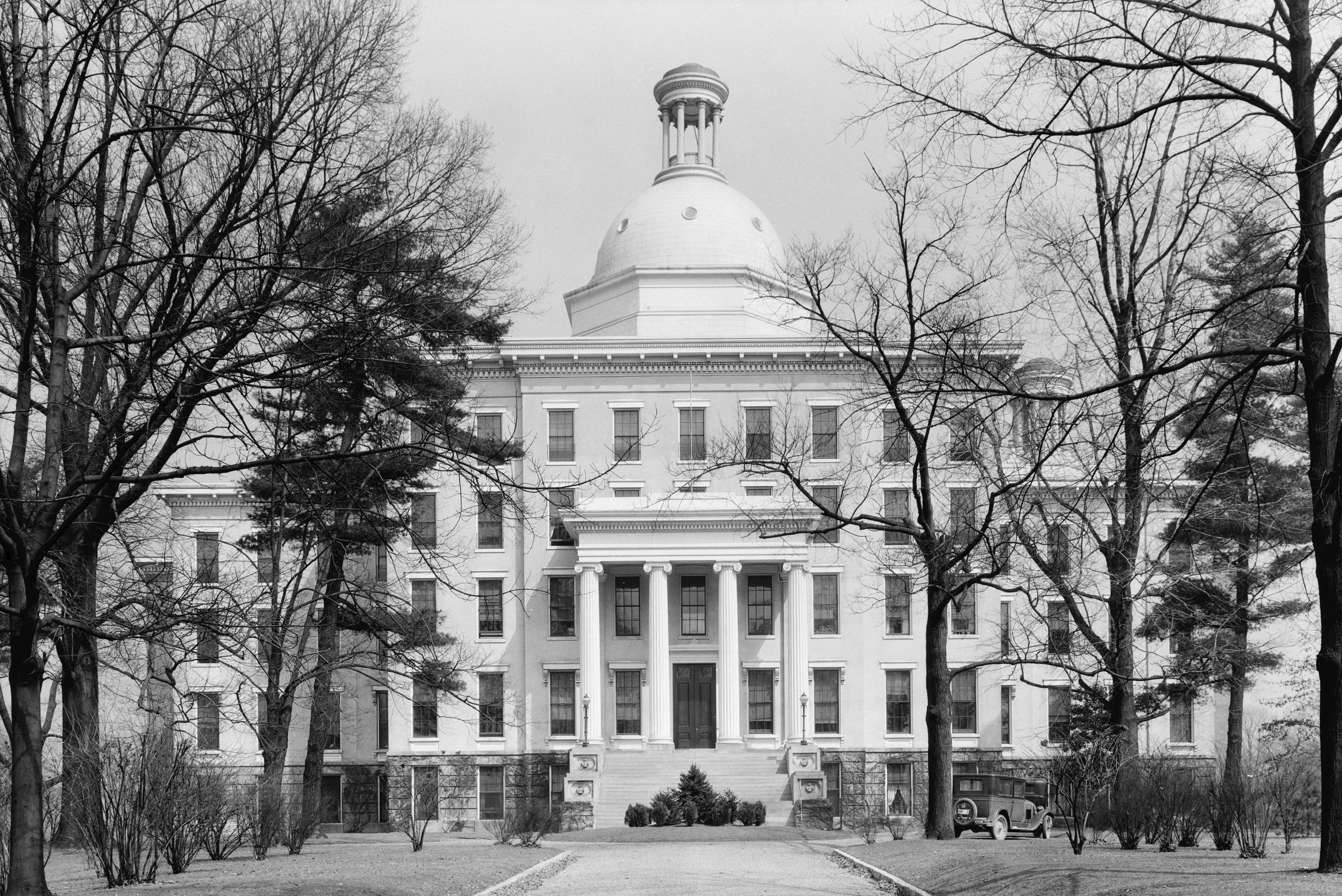 Kentucky School for the Blind, 1867 Frankfort Avenue, Louisville, Jefferson County, KY. 38°15′26″N 85°42′49″W / 38.25722°N 85.71361°W. Image has been cropt to remove border.